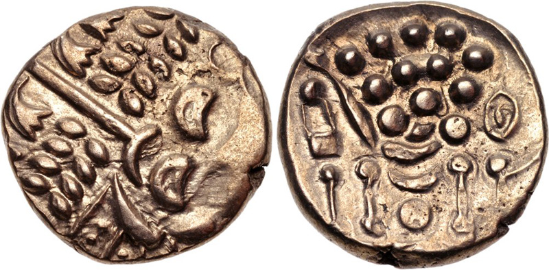 CELTIC, Britain. Durotriges. Uninscribed. Circa 65 BC-AD 45. Pale AV Stater (19mm, 5.81 g, 4h). Durotrigan E, Abstract (Cranborne Chase) type. Devolved head of Apollo right / Disjointed horse left; pellets above, pellet below, pellet in lozenge above tail, [zigzag and pellet pattern between two parallel exergue lines]. Philippeios type.